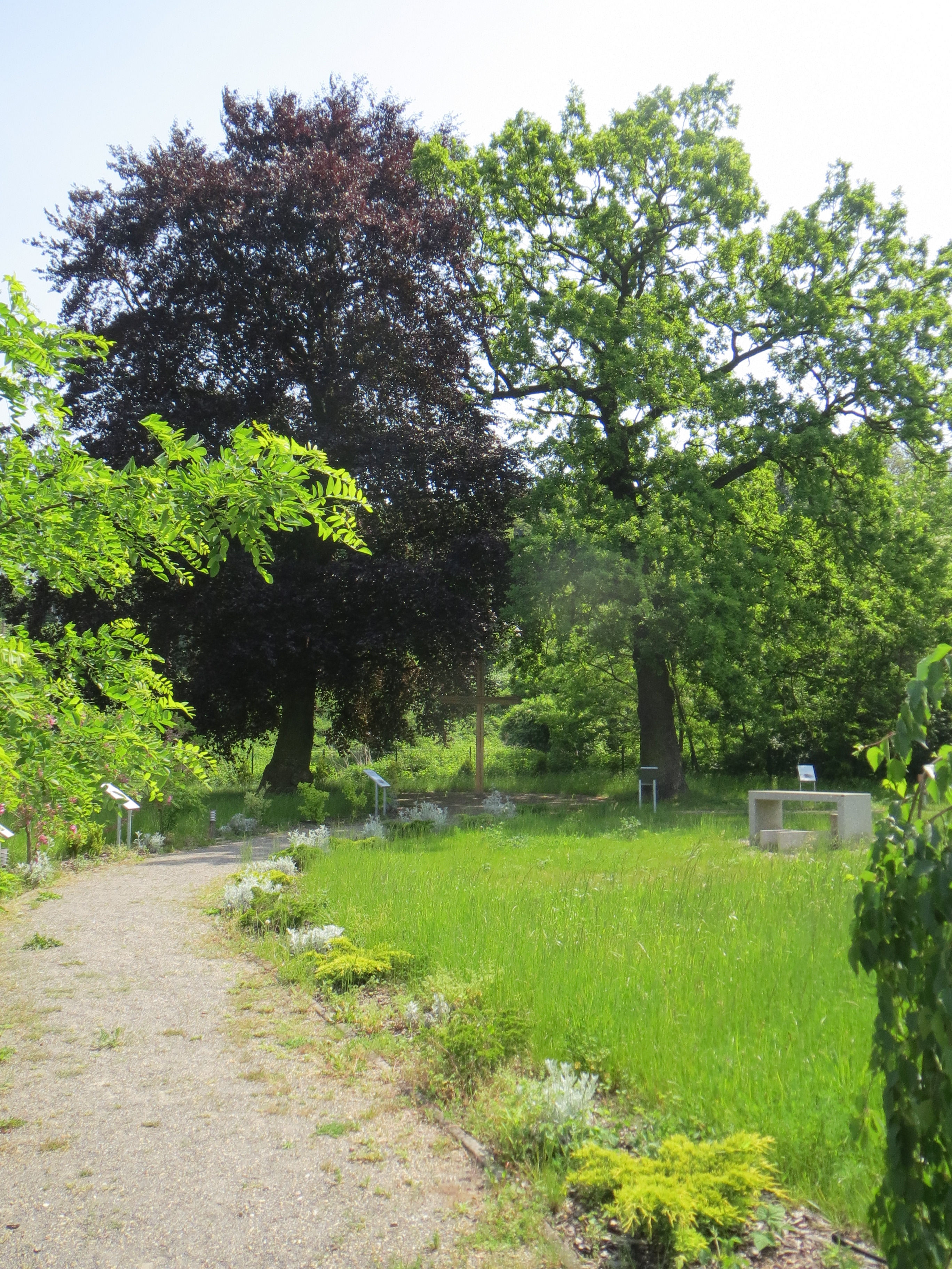 Dietrich Bonhoeffer garden of silence and meditation in Zdroje/Finkenwalde, site of Bonhoeffer's seminar 1935 to 1937